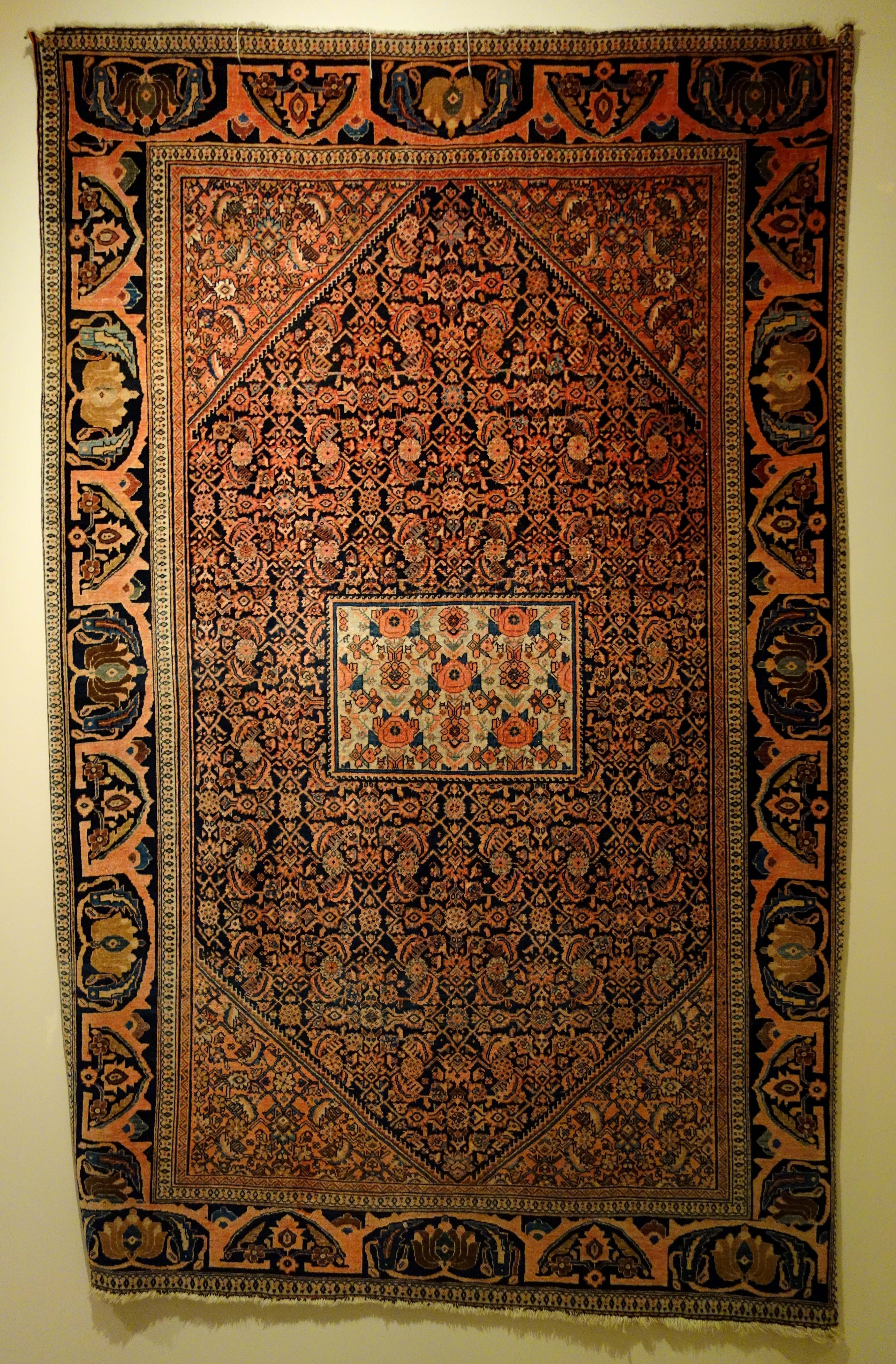 Exhibit in the Huntington Museum of Art, Huntington, West Virginia, USA. This artwork is in the public domain because the artist died more than 70 years ago.